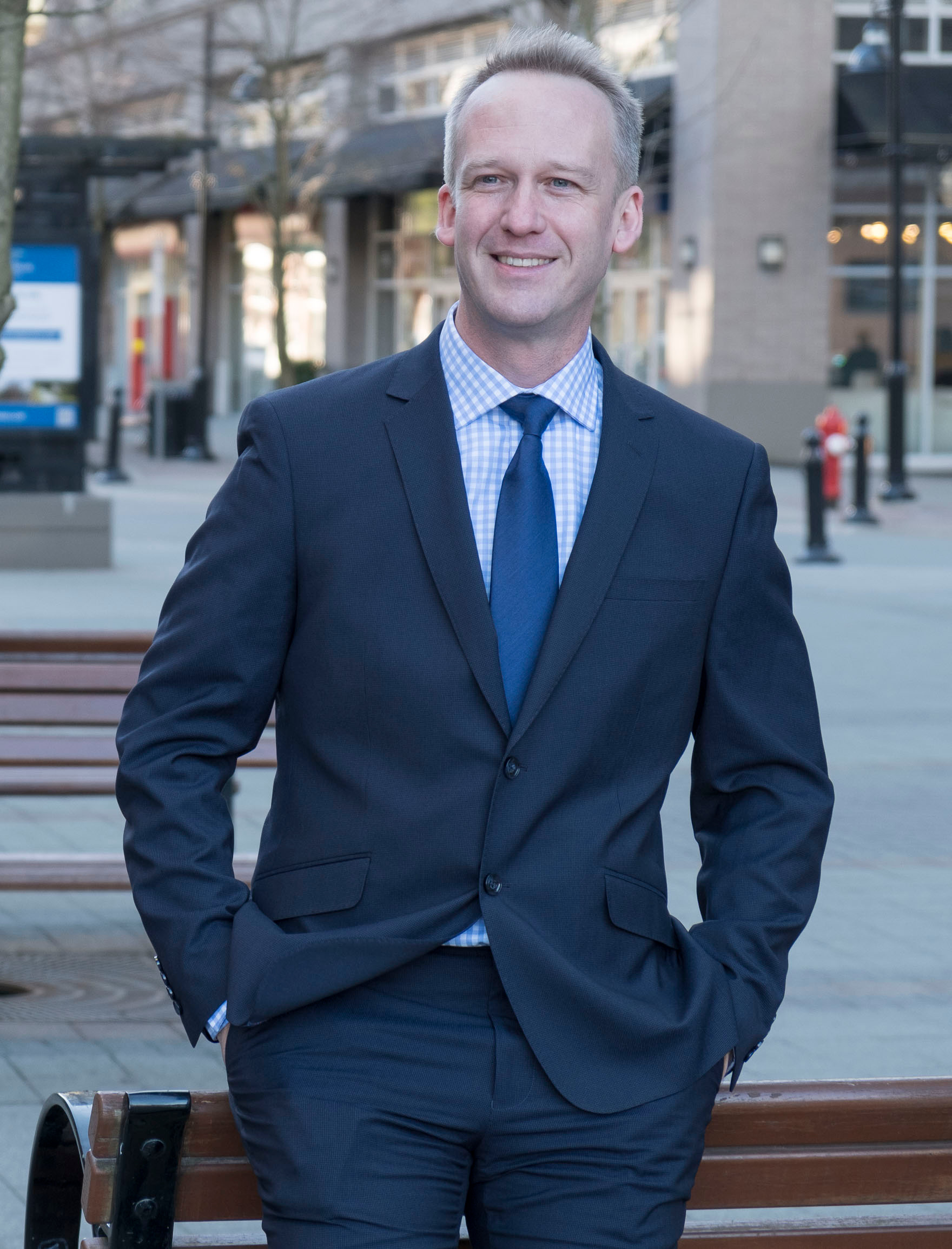 BC NDP MLA Rick Glumac